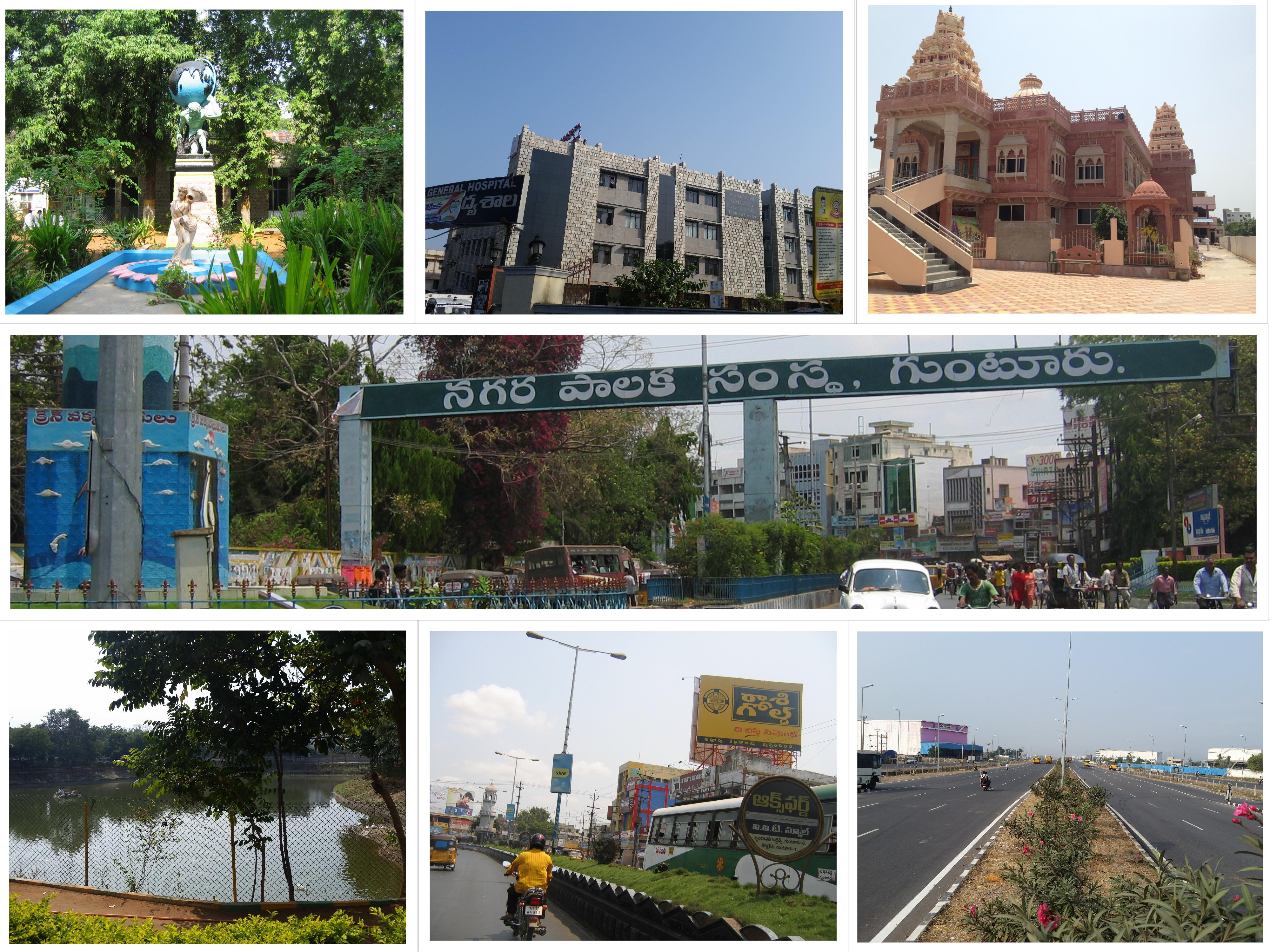 Montage of Guntur city.